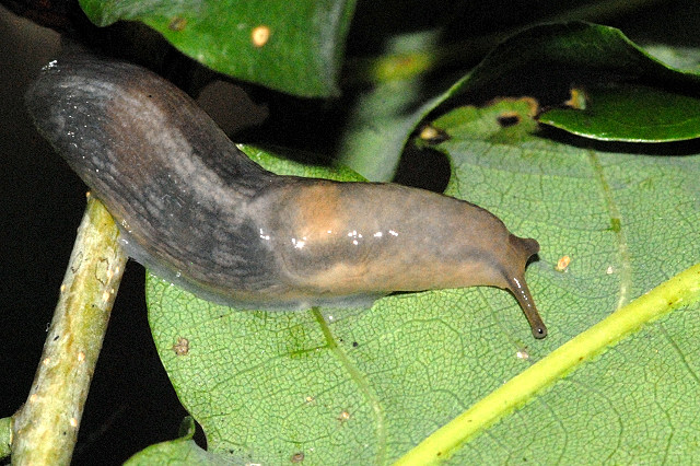 Lehmannia marginata from Commanster, Belgian High Ardennes .